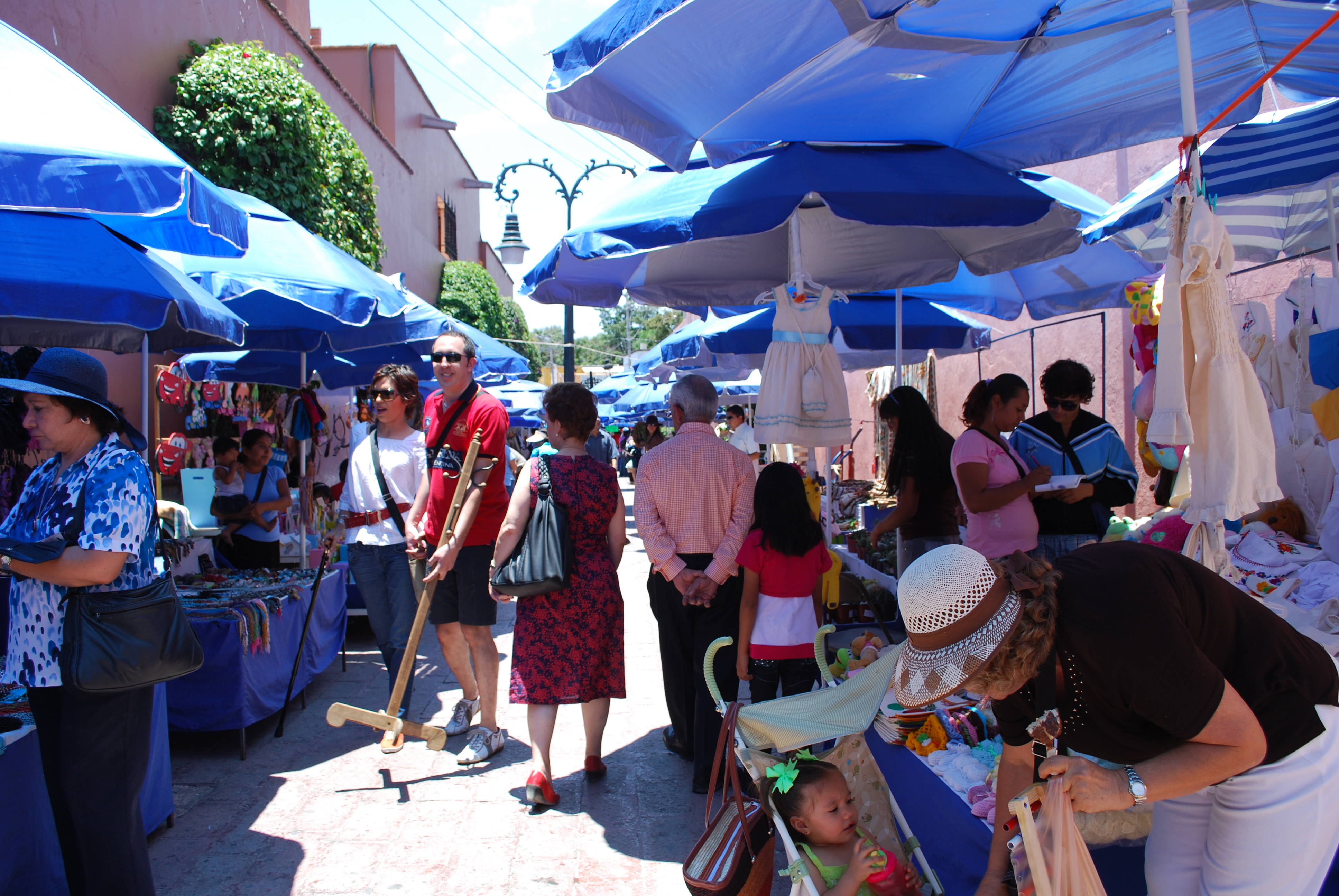 View inside a street market for crafts in Tequisquiapan, Queretaro, Mexico